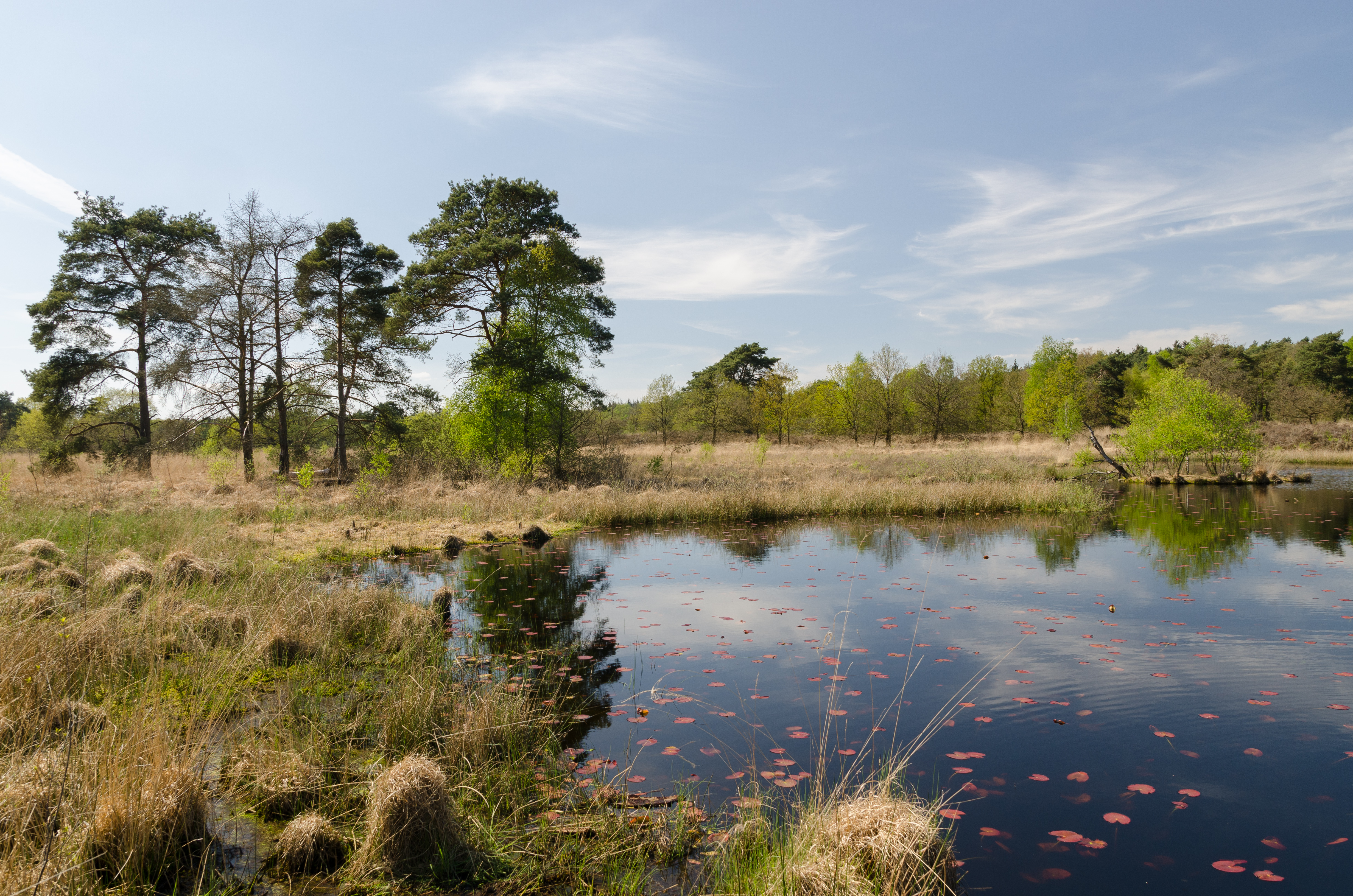 Nationalpark of the Netherlands "De Meinweg" - moorland with small lake